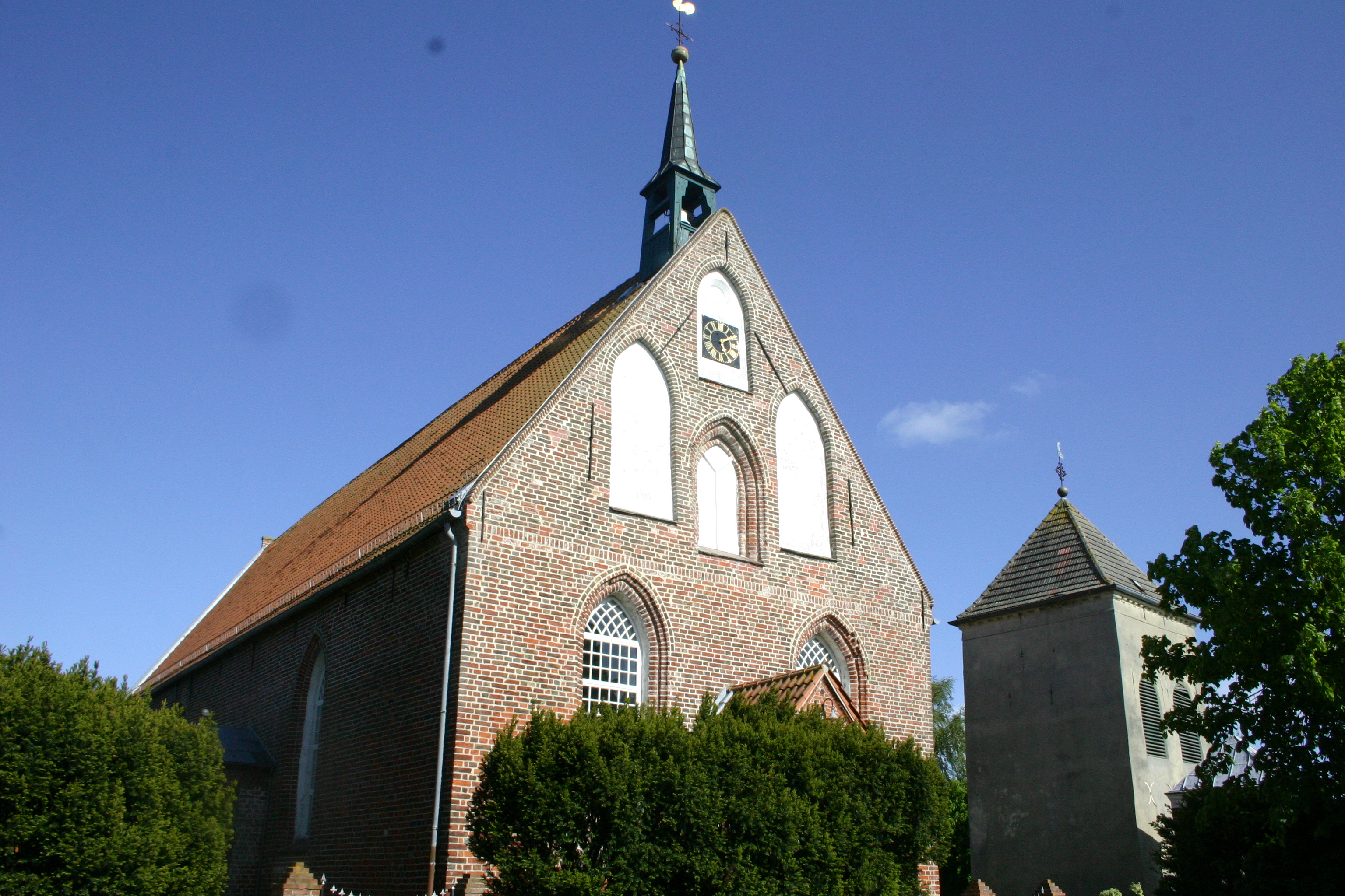 Historic church in Manslagt, district of Aurich, East Frisia, Germany